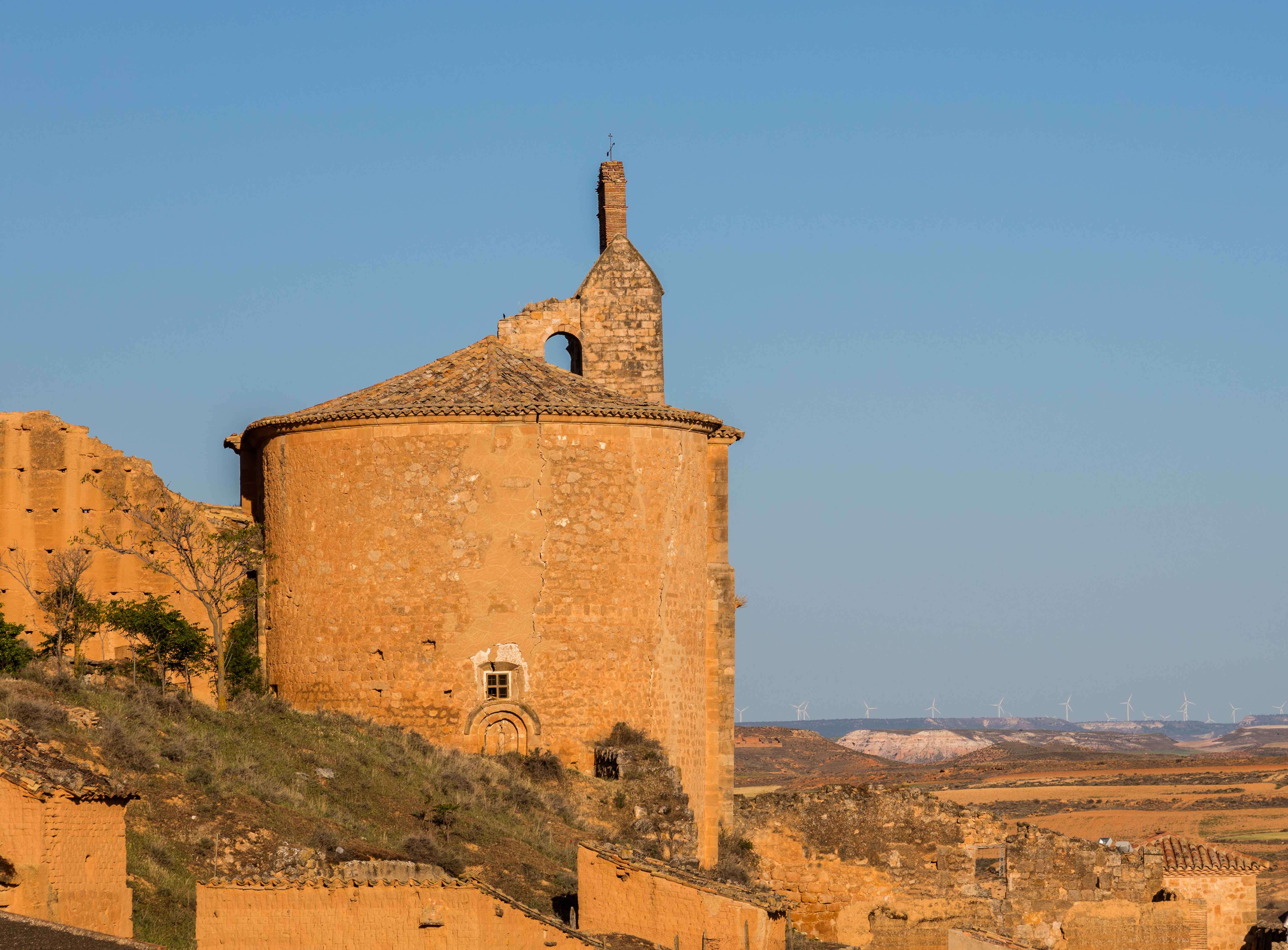 Church of the Assumption, Monreal de Ariza, Zaragoza, Spain